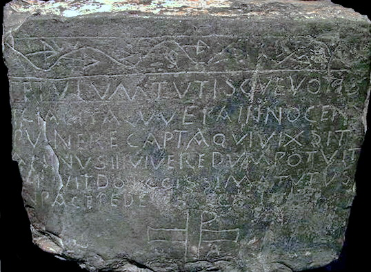 Early Christian gravestone of Aluuefa, discovered in 1915 in the westwork of the Basilica of Saint Servatius in Maastricht, Netherlands. 6th century?